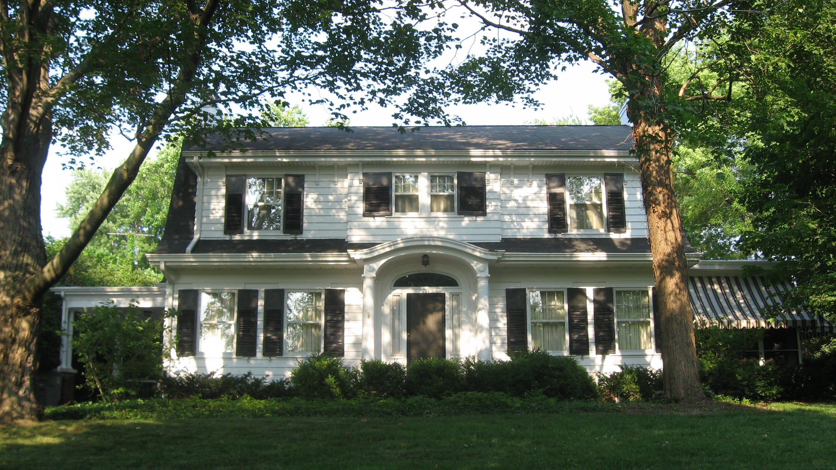 Front of the T. Harlan and Helen Montgomery House, located at 628 N. Poplar Street in Seymour, Indiana, United States. Built in 1922, it is listed on the National Register of Historic Places.